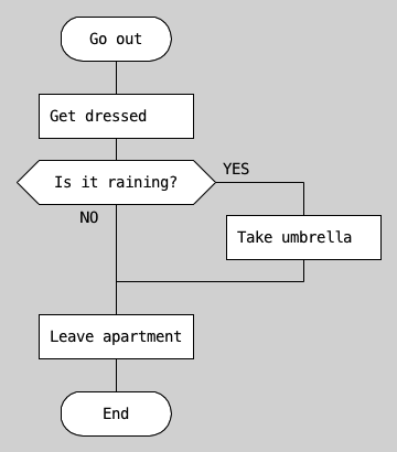 The DRAKON chart for the algorithm of going out.